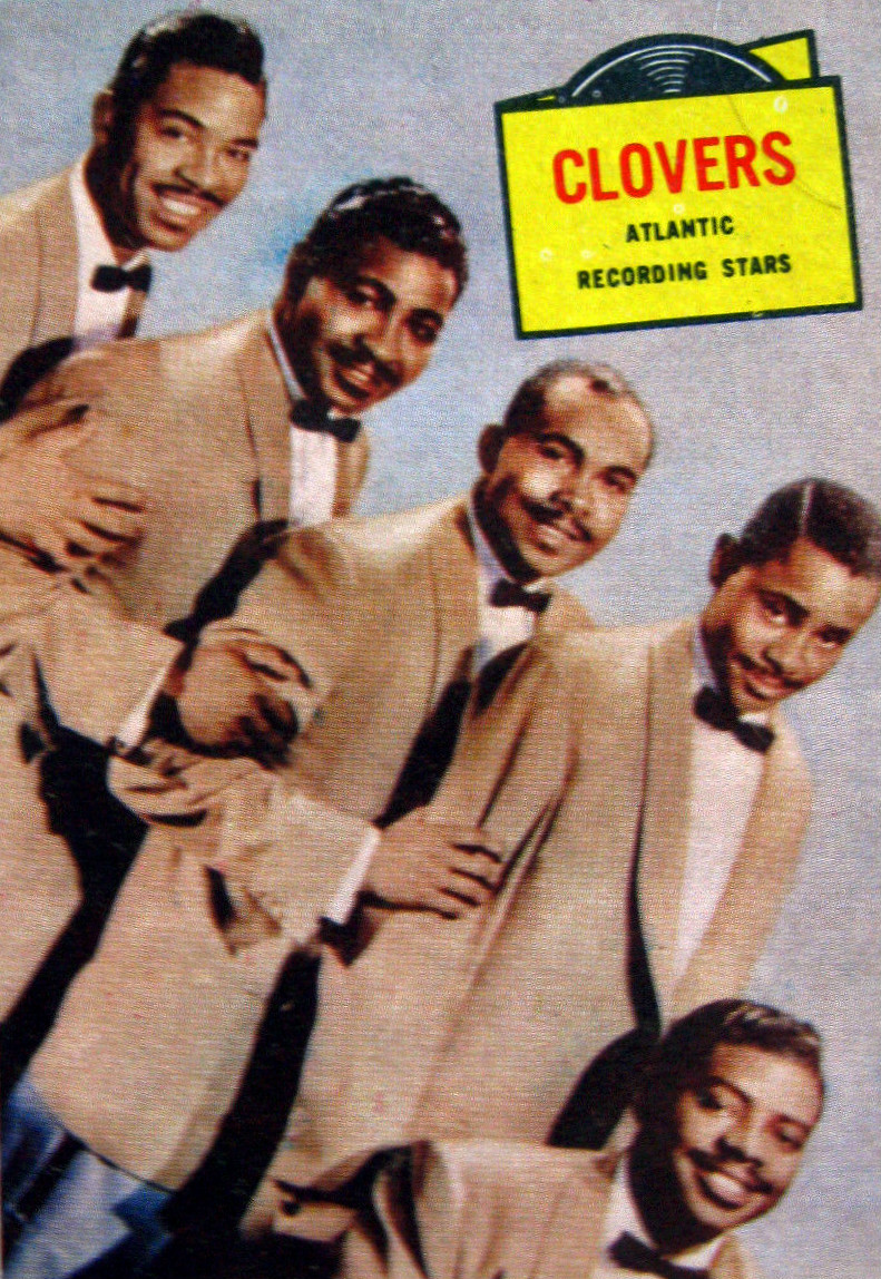 Trading card photo of The Clovers. In 1957, Topps gum cards issued a series of movie stars, television stars and recording stars. They were part of their recording stars cards.